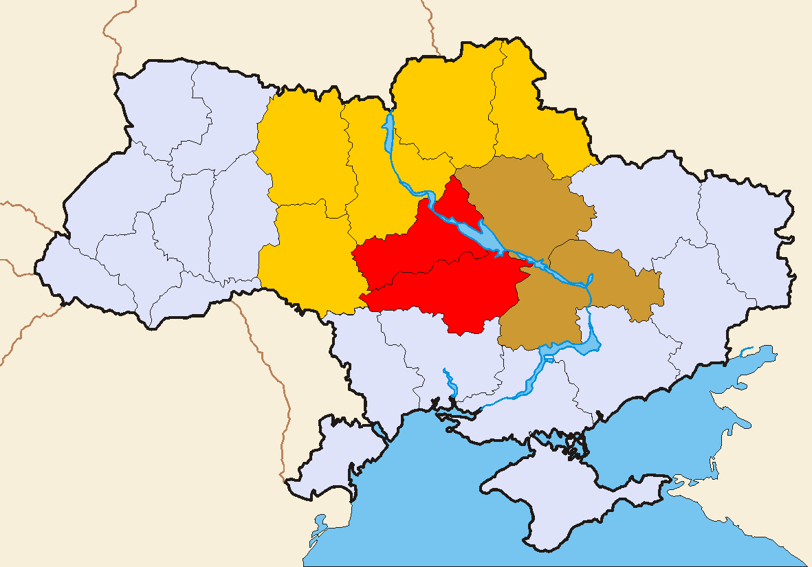 Central Ukraine. Filled with red - always included. With brown - often included. Yellow - sometimes included. See also